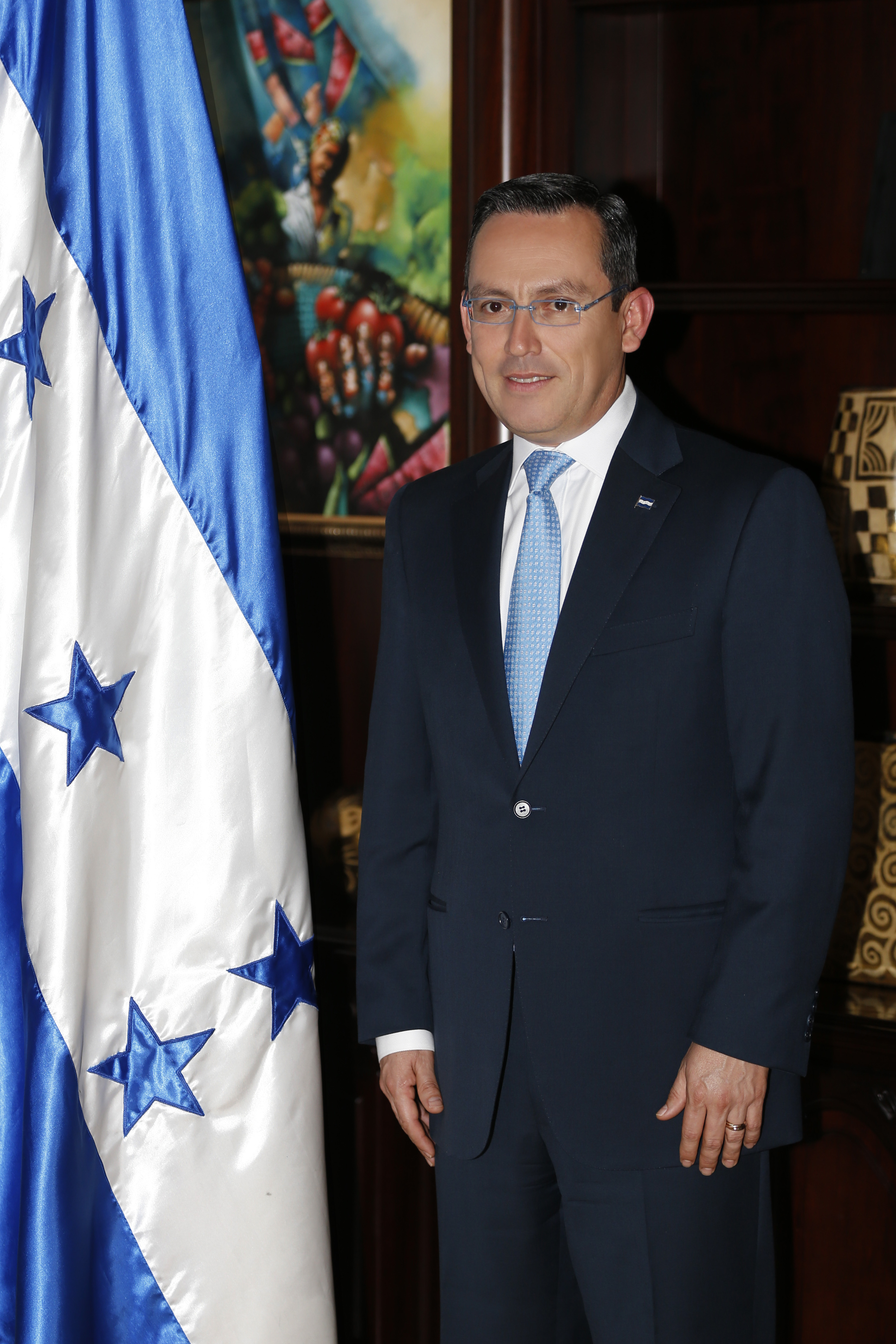 Official Photograph of Dr. Marlon Tábora Muñoz as President of the Honduras Central Bank